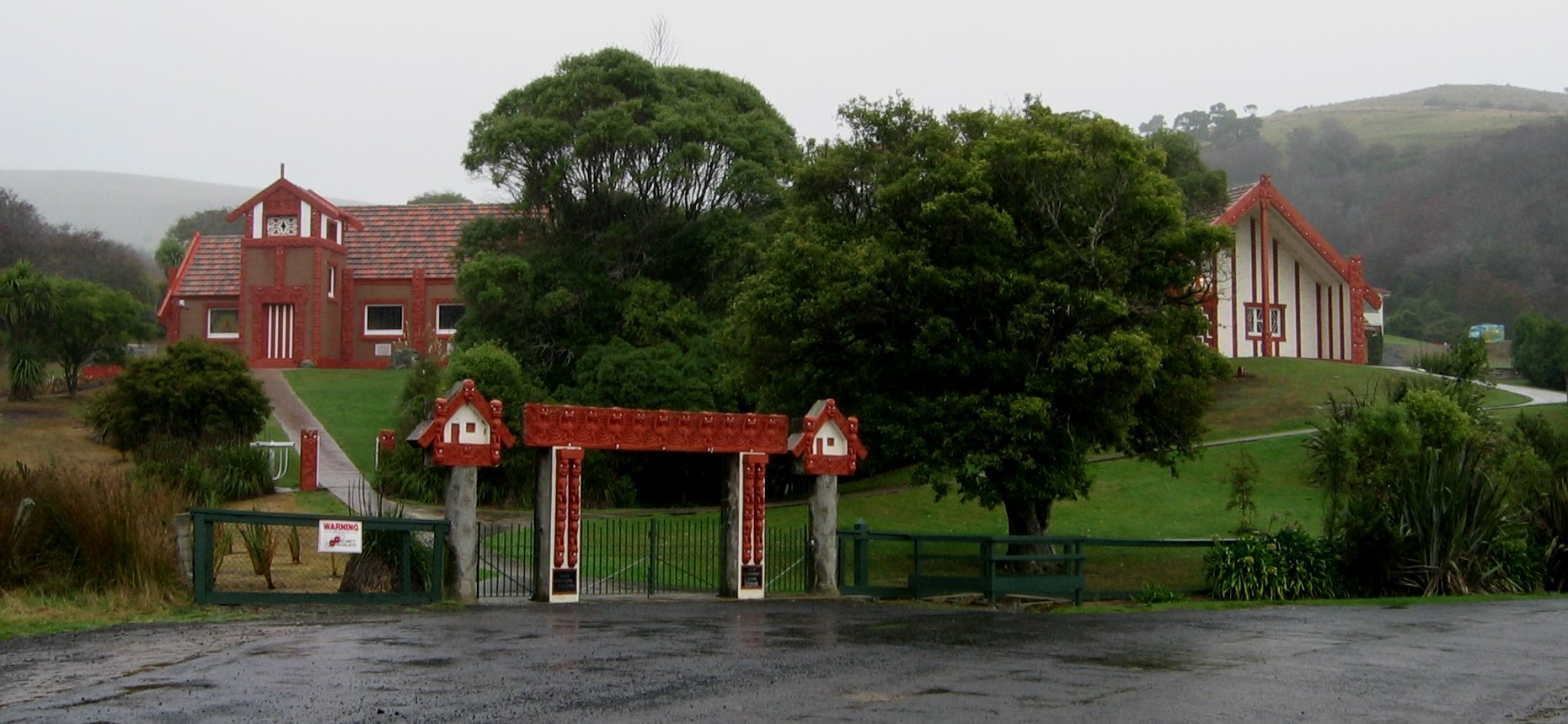 Otakou marae, Otago Peninsula, New Zealand. Buildings built 1940-1945. The building in the top left is Otakou Maori Memorial Methodist Church, New Zealand Historic Places Trust Register number 5177.